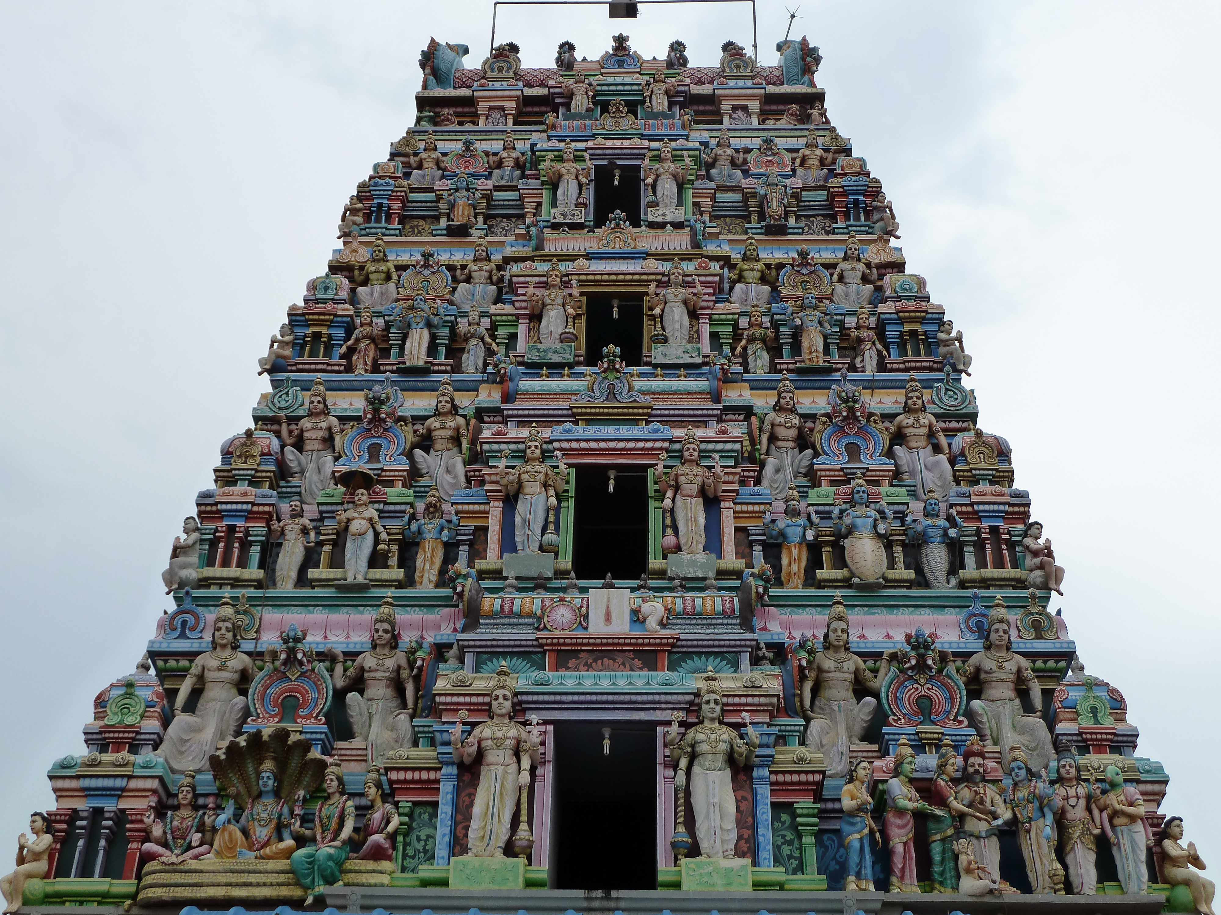 The Vimahana (Tower) of the Perumal Kovil (Temple) situated near Press enclave of Kovaipudur, Coimbatore, India